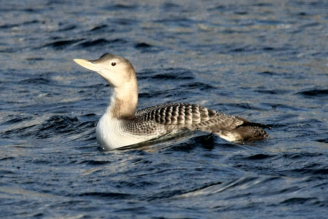 Yellow-billed Loon (Gavia adamsii), juvenile/first winter